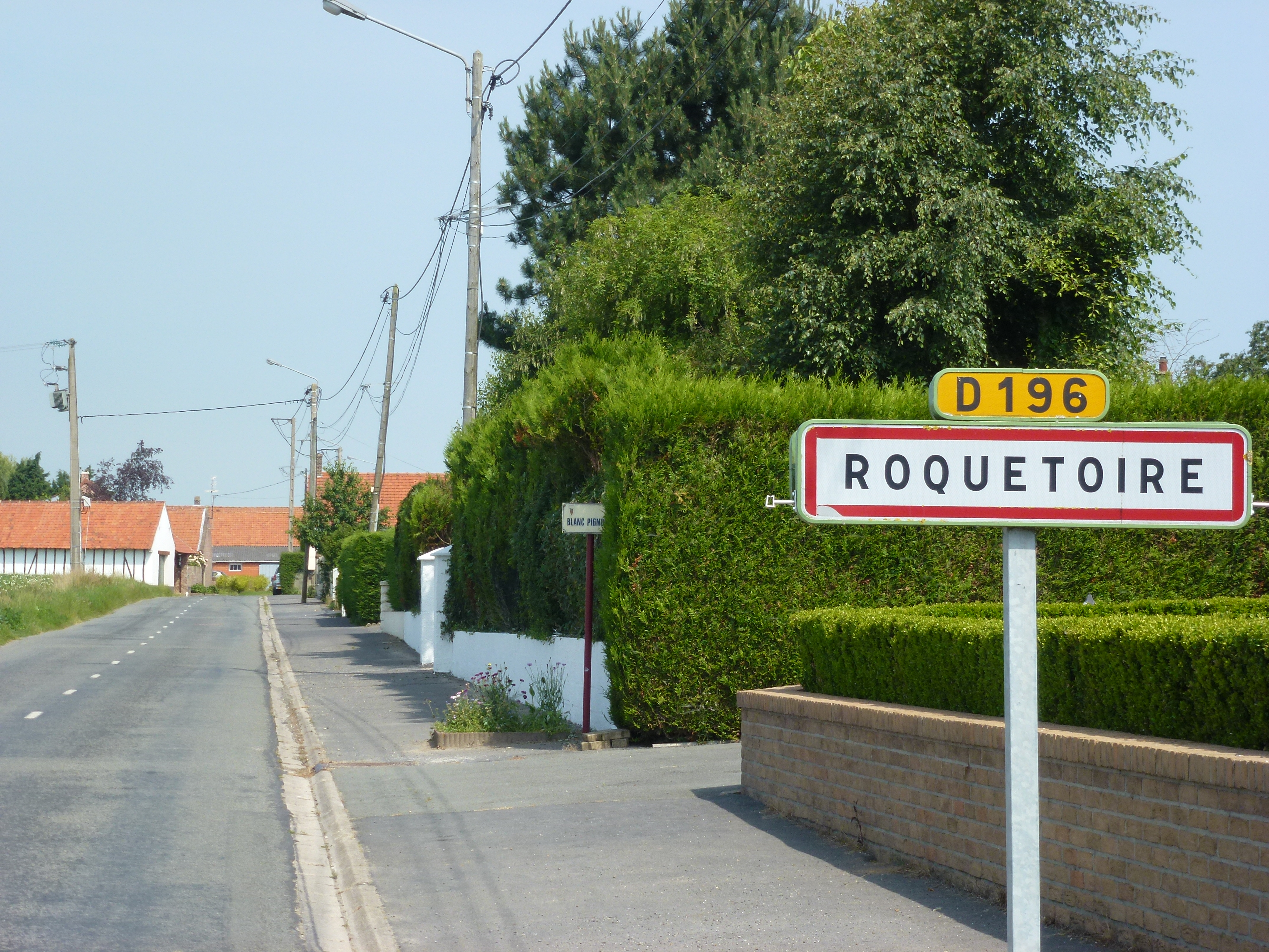 Roquetoire (Pas-de-Calais, Fr) city limit sign